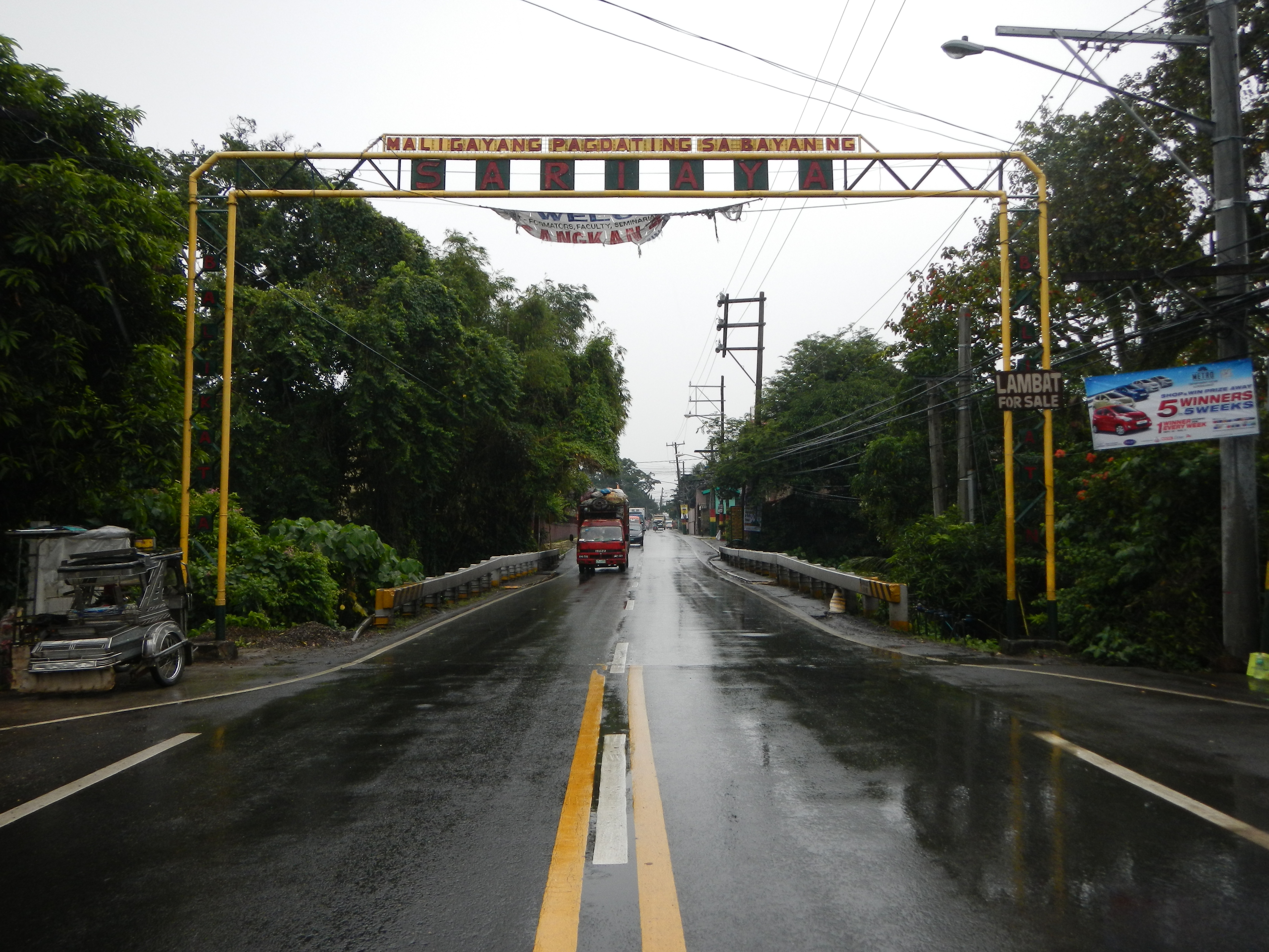 Upload Wizard -- (general description of landmarks, town, church) - of - Sariaya, Quezon [1] - [Barangay Poblacion I, Welcome Arch of Sariaya, Quezon at the Quianuang Bridge of Sariaya (B03091LZ with reinforced concrete box culvert including approaches km.118+672 along Manila South Road[2][3]).[4] - Sariaya, Quezon [5] ([6] Region: CALABARZON (Region IV-A) 2nd district of Quezon Founded: October 4, 1599 Castanas Barangays: 43 Area 239.8 km2 (92.6 sq mi) a first class municipality in the province of Quezon, Philippines famous for beaches, resorts, heritage houses, and hiking activities Coordinates: 13°56'31"N 121°30'9"E).[7].